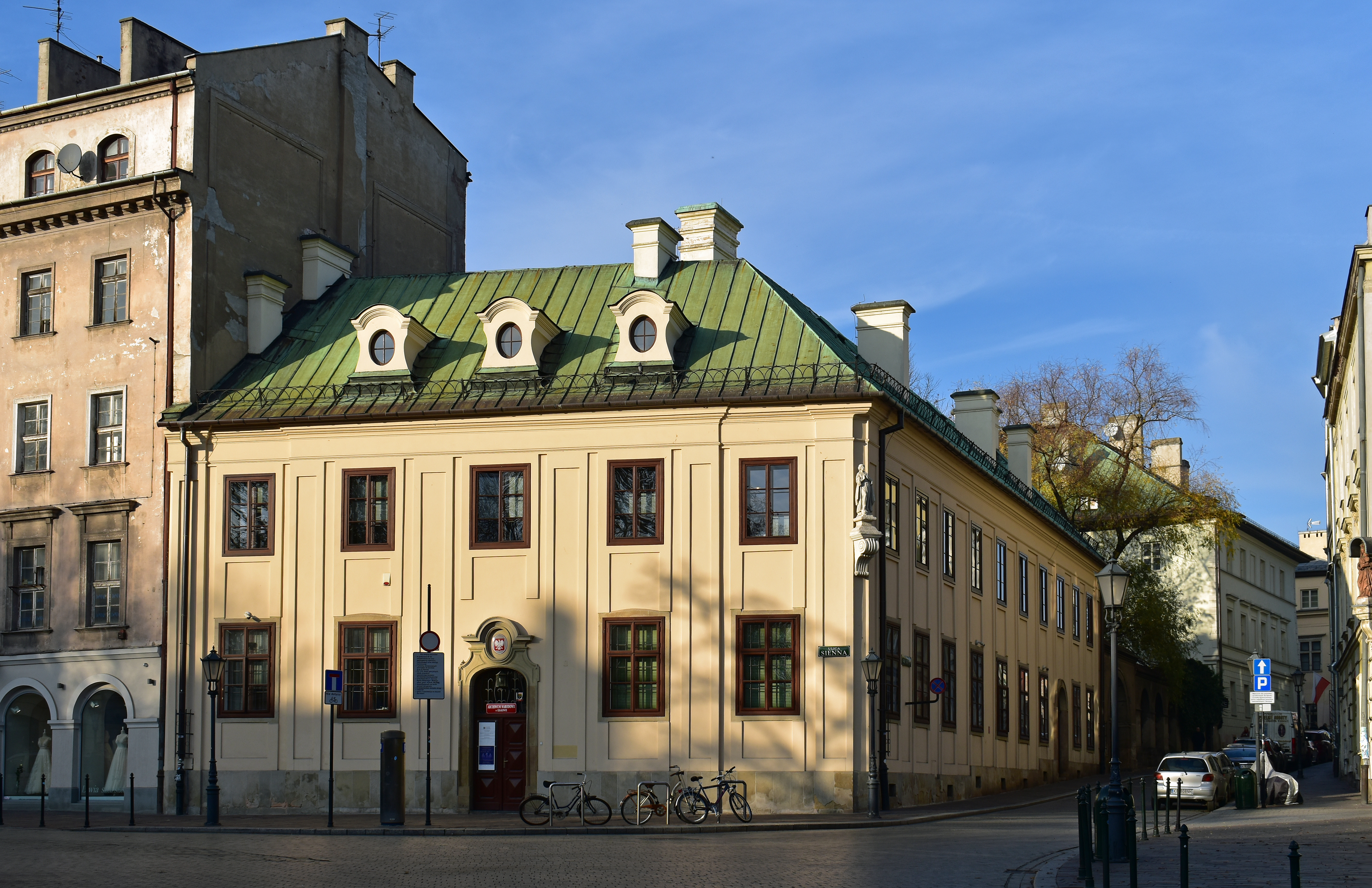 State Archive in Krakow, 16 Sienna street, Old Town, Krakow, Poland